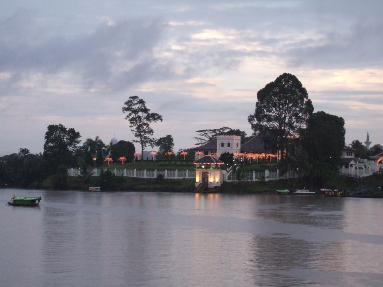 View of Astana Sarawak from Sarawak river.